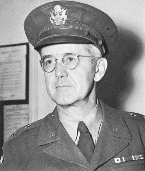 William Willis Eagles (January 12, 1895 - February 19, 1988) was a highly decorated officer in the United States Army with the rank of Major General. A graduate of the United States Military Academy, he is most noted for his service as Commanding general, 45th Infantry Division during Italian campaign during World War II. Following the War, Eagles remained in the Army and served as Commanding general, 9th Infantry Division, Commanding General, Ryukyus Command, Okinawa or Inspector-General of the Army’s European command, before retired in 1953.